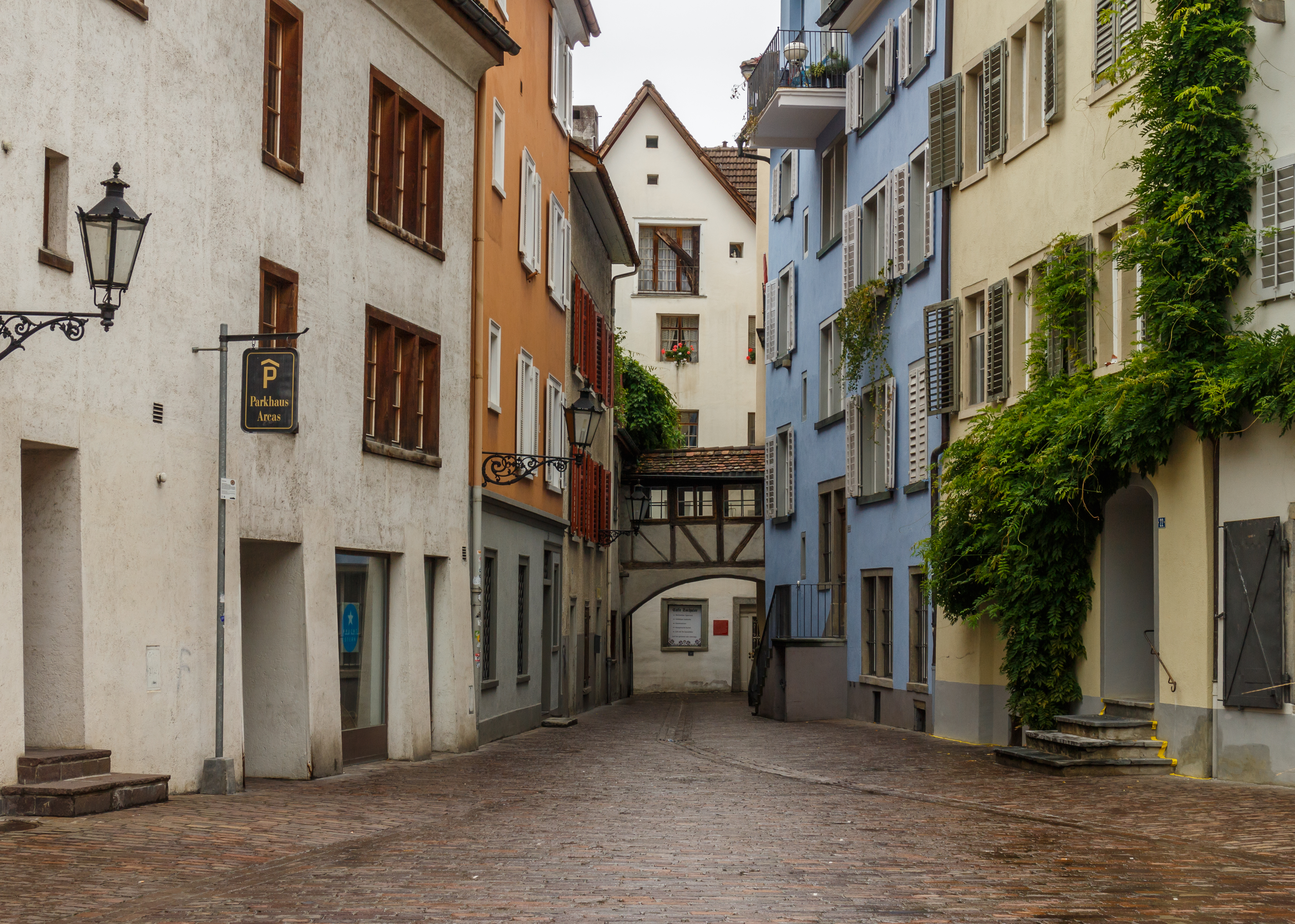 Chur in Graubünden (Switzerland). Chur in Graubünden. Streets and arches in Altstadt.